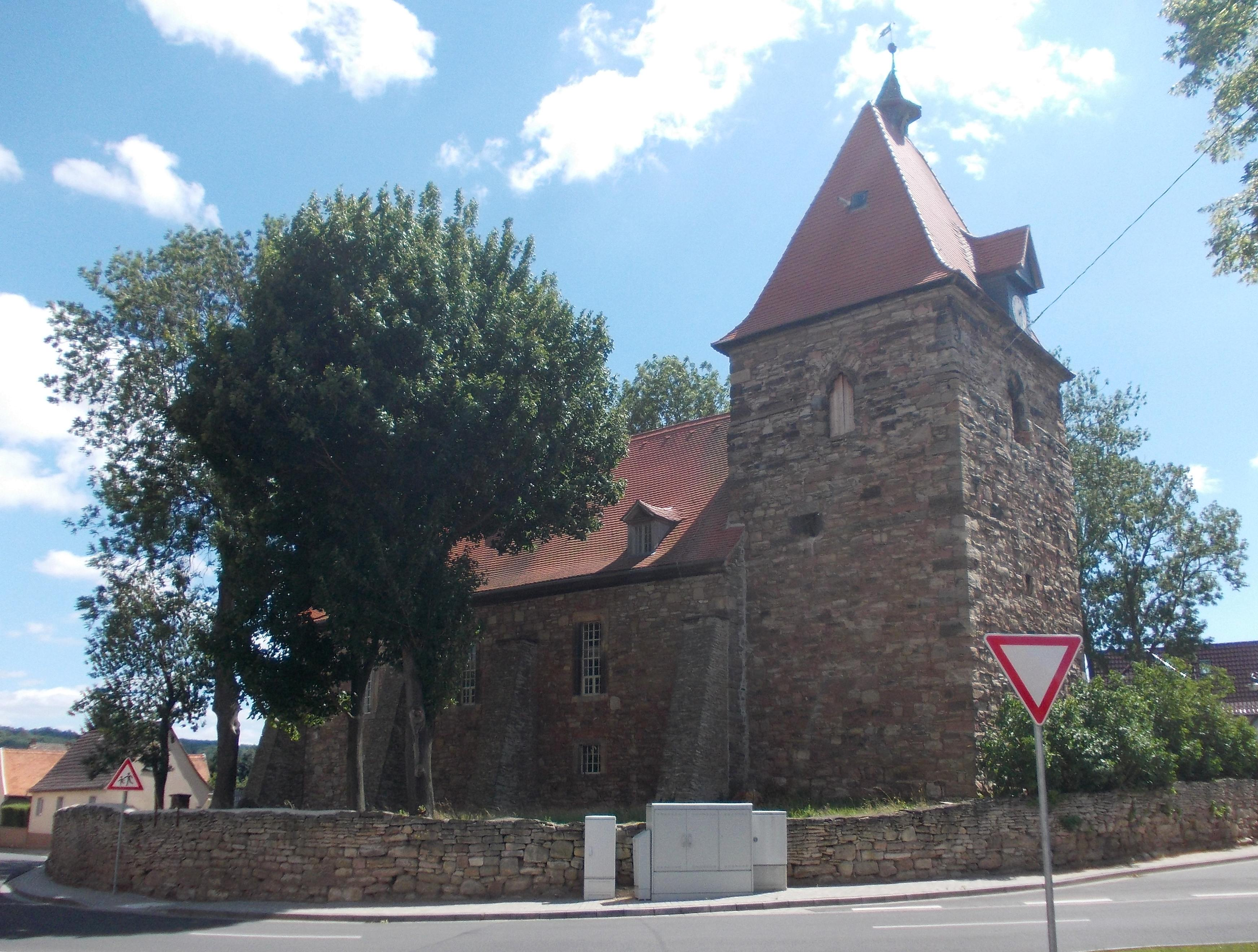 St. Martin's Church in Memleben (Kaiserpfalz, district: Burgenlandkreis, Saxony-Anhalt)